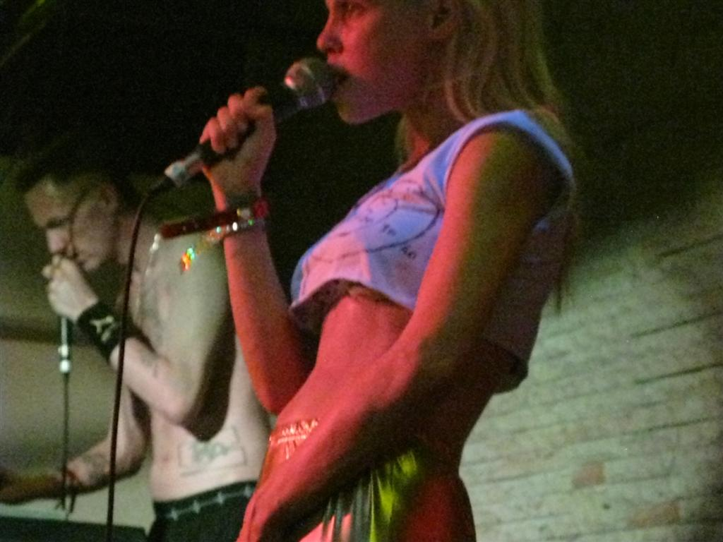 Singer Yo-Landi from the band Die Antwoord.